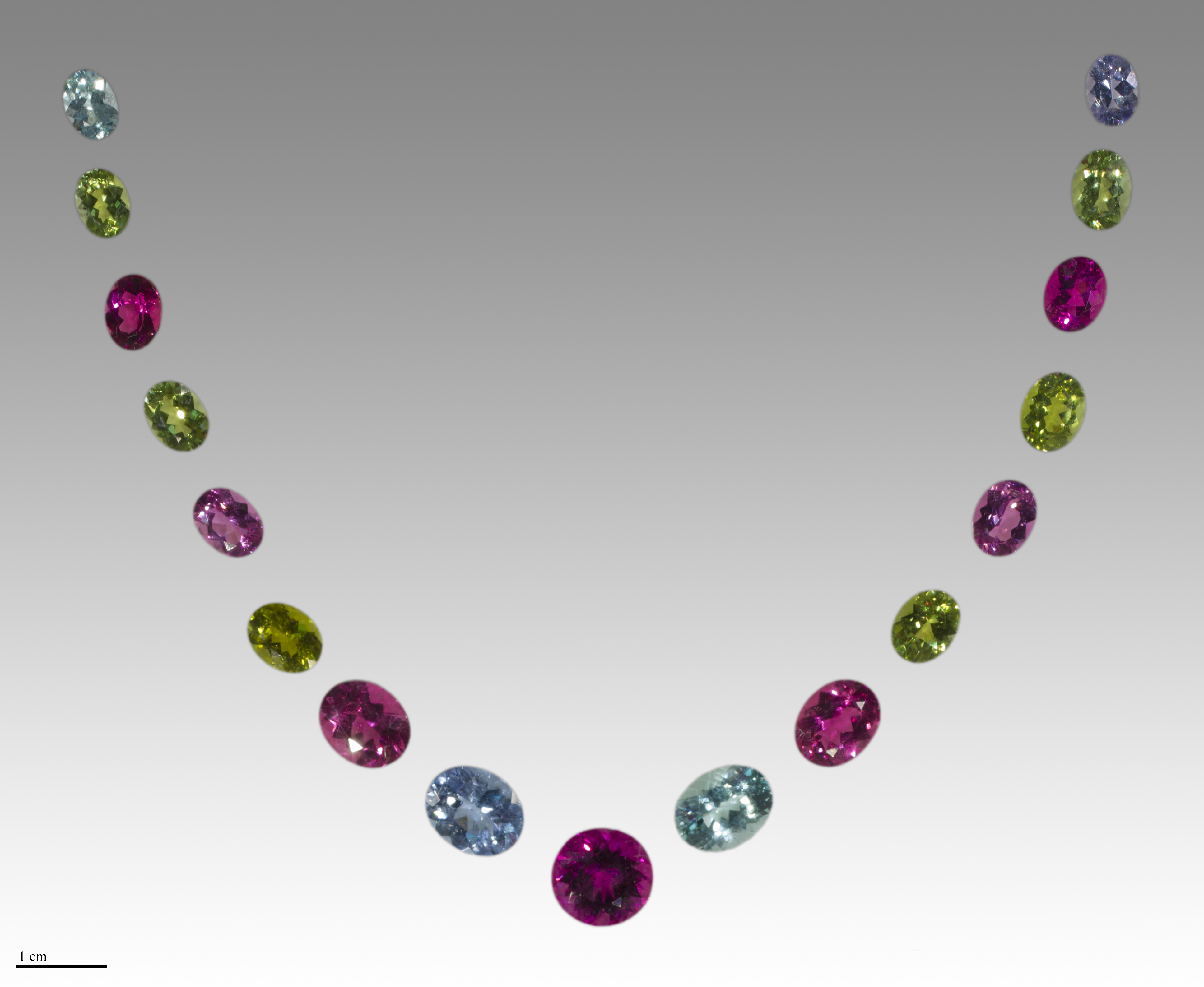 Elbaite (Paraiba tourmaline - Cuprian Elbaite) - Cut Locality: Mavuco, Nampula Province, Mozambique